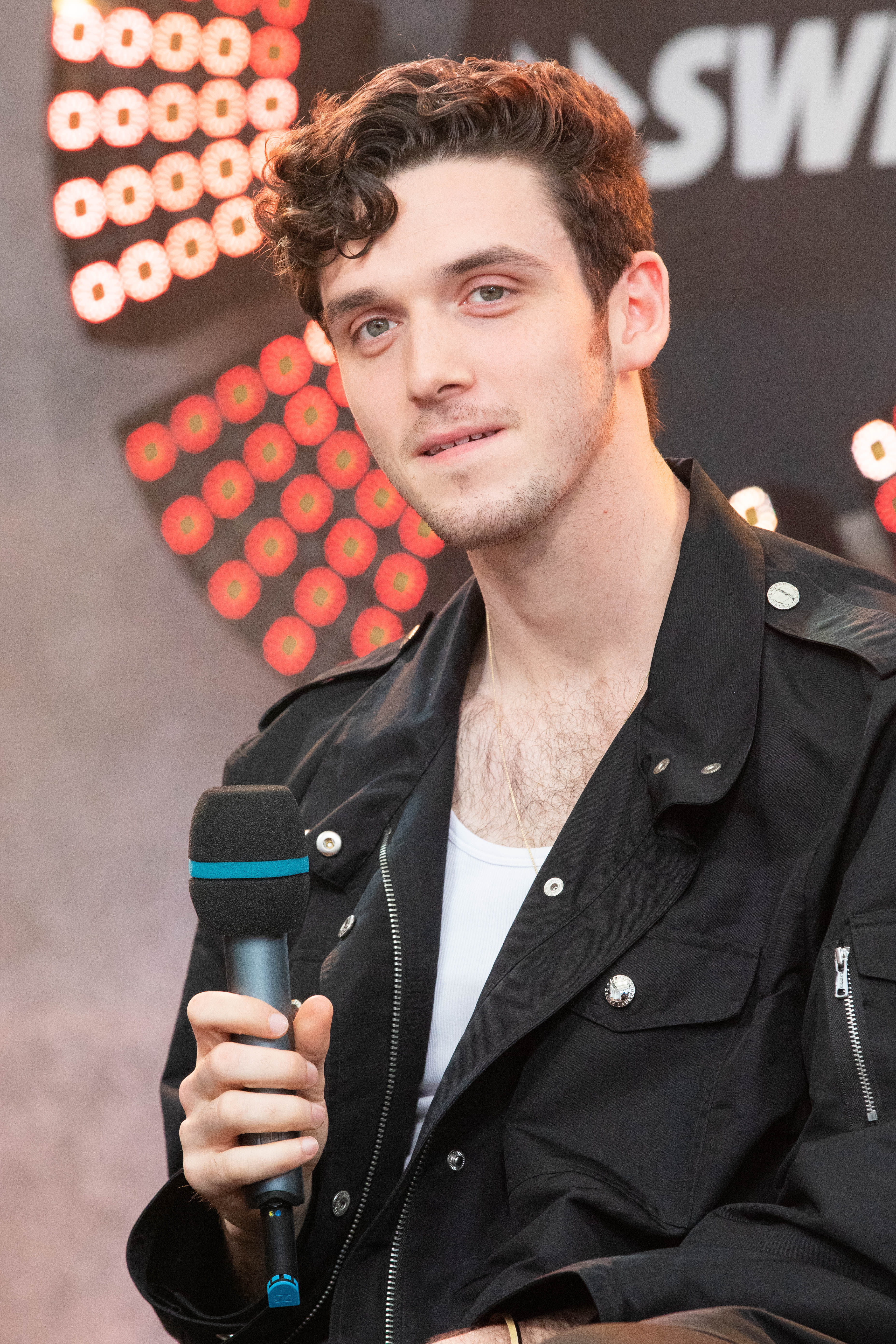 US-american singer Lauv at the SWR3 New Pop Festival 2018